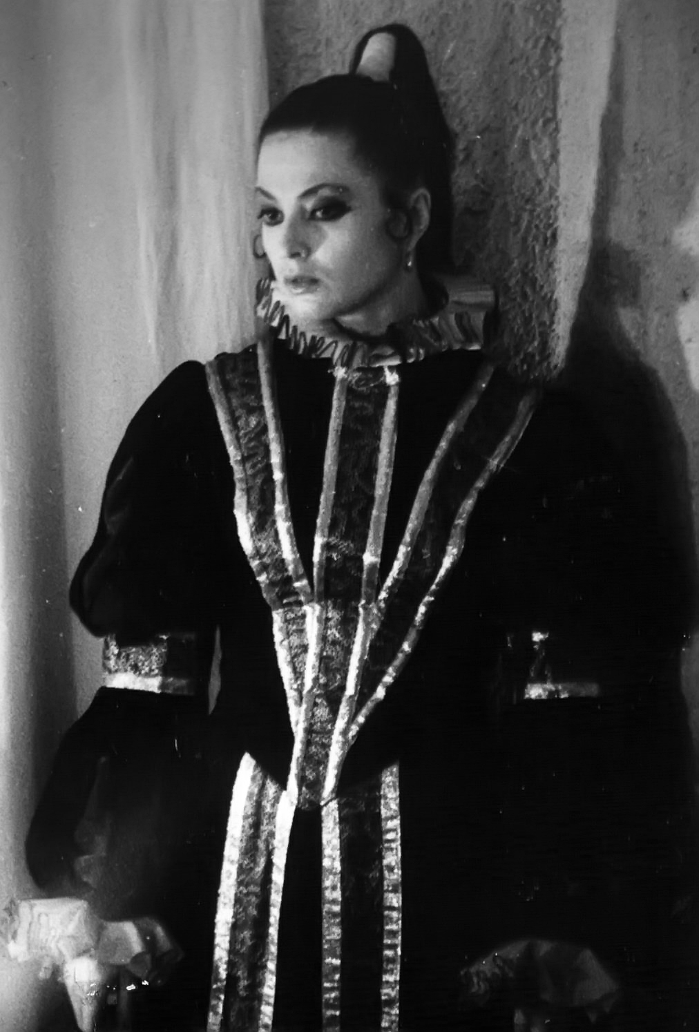 Yaroslava Mosiychuk